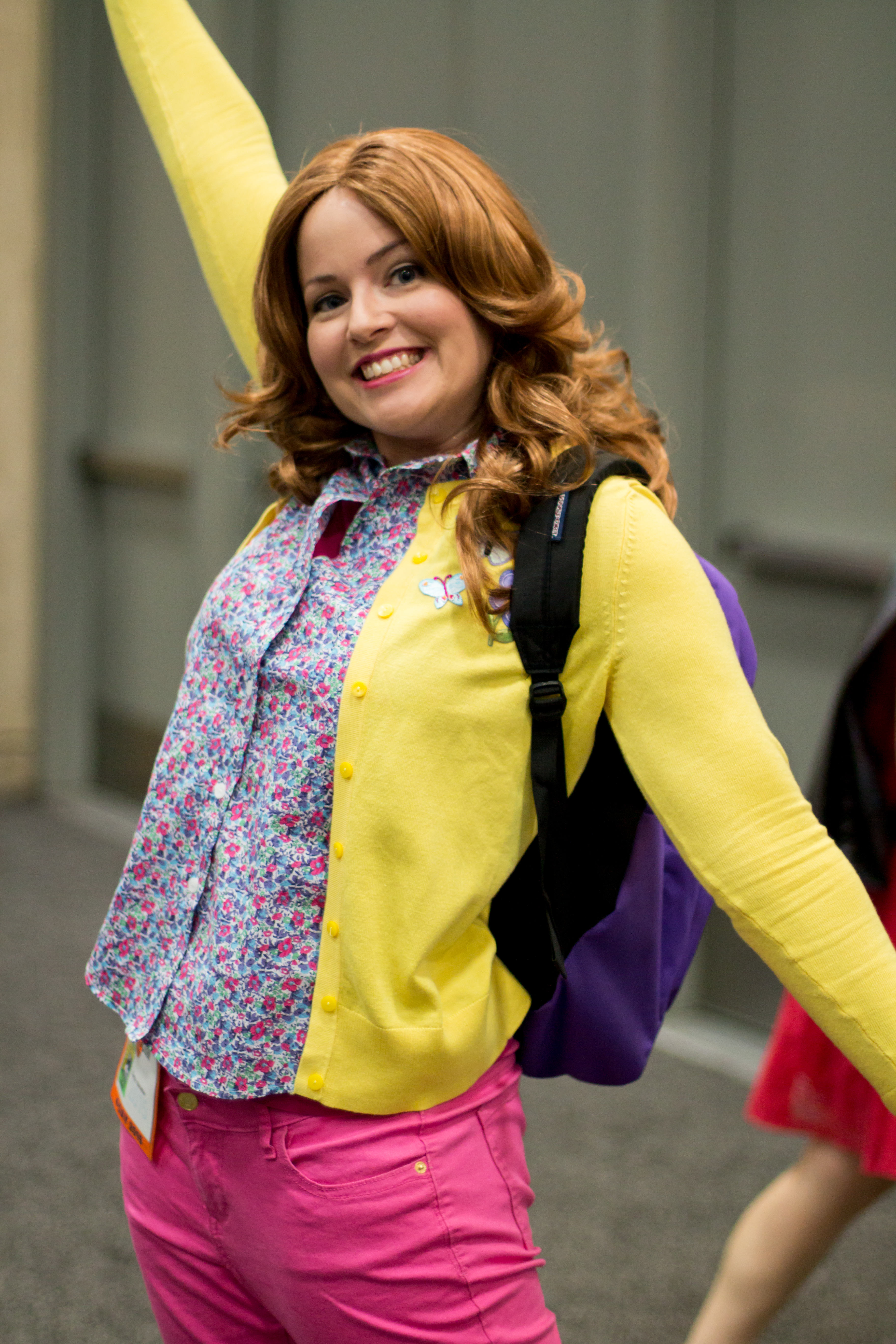 Unbreakable Kimmy Schmidt Cosplay Cosplay at San Diego Comic Con 2015.